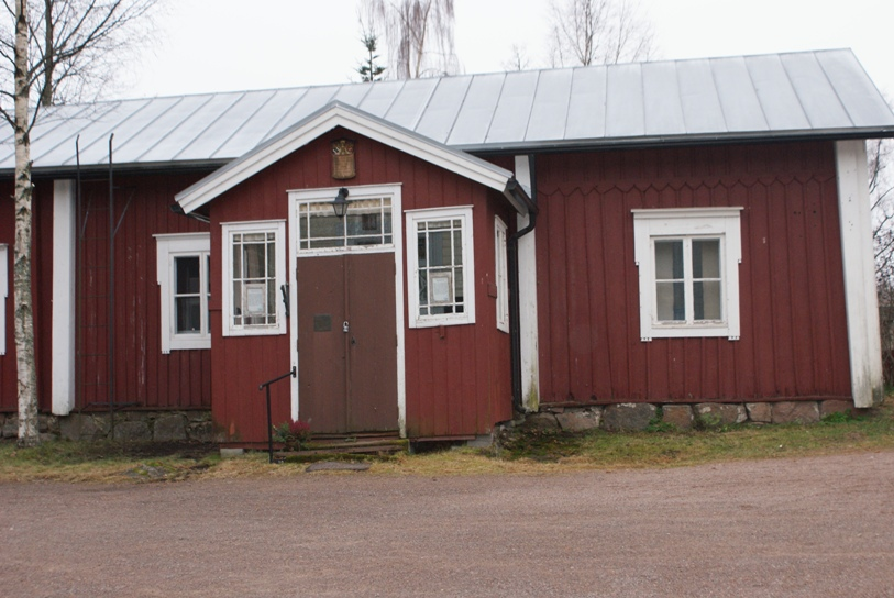 Brofogdas in Lapinjärvi, Finland.